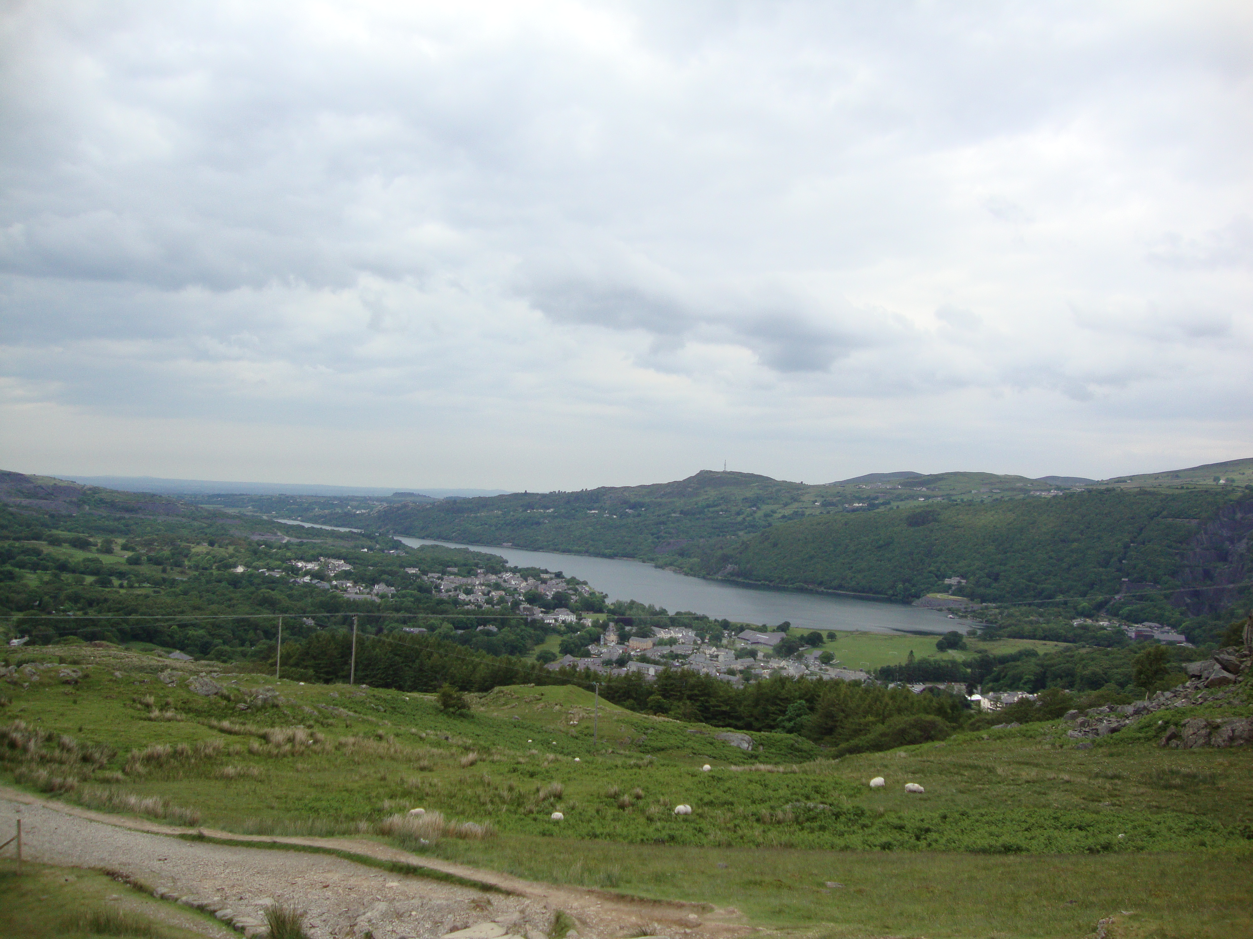 View of Llanberis from the bottom of Llanberis Path